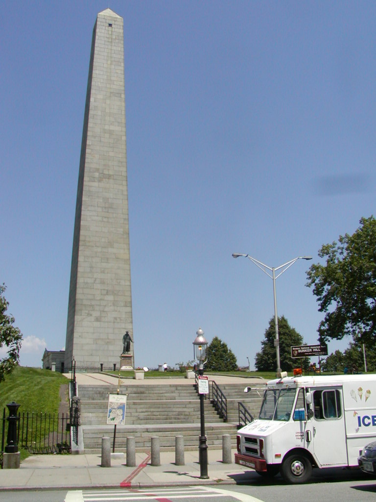 Bunker Hill Monument in Charlestown, MA, part of Boston National Historical Park.